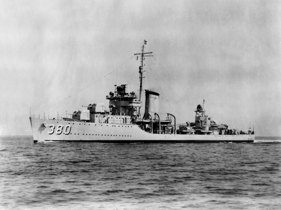 The U.S. Navy destroyer USS Gridley (DD-380) before World War II.